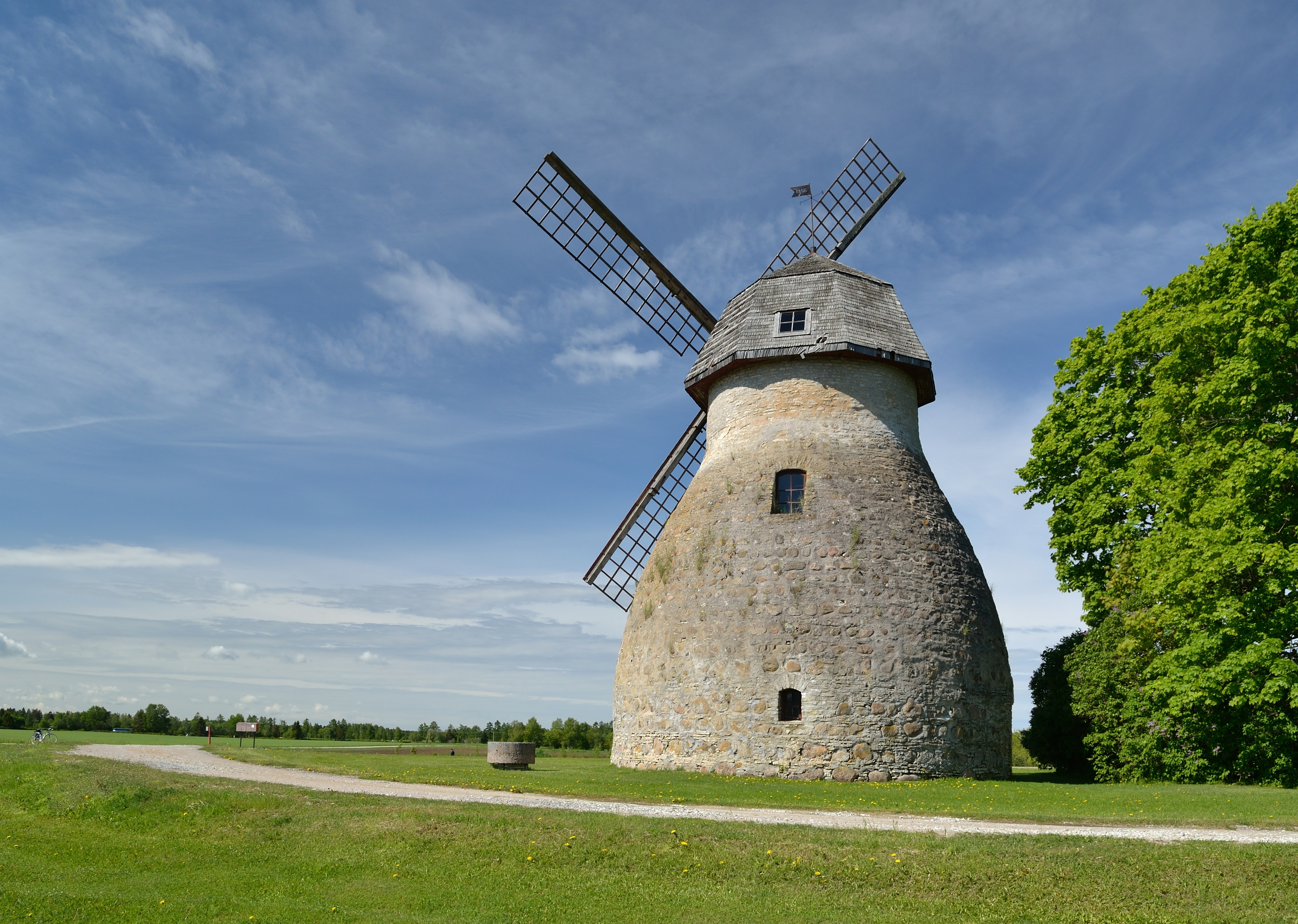 Aaspere manor windmill